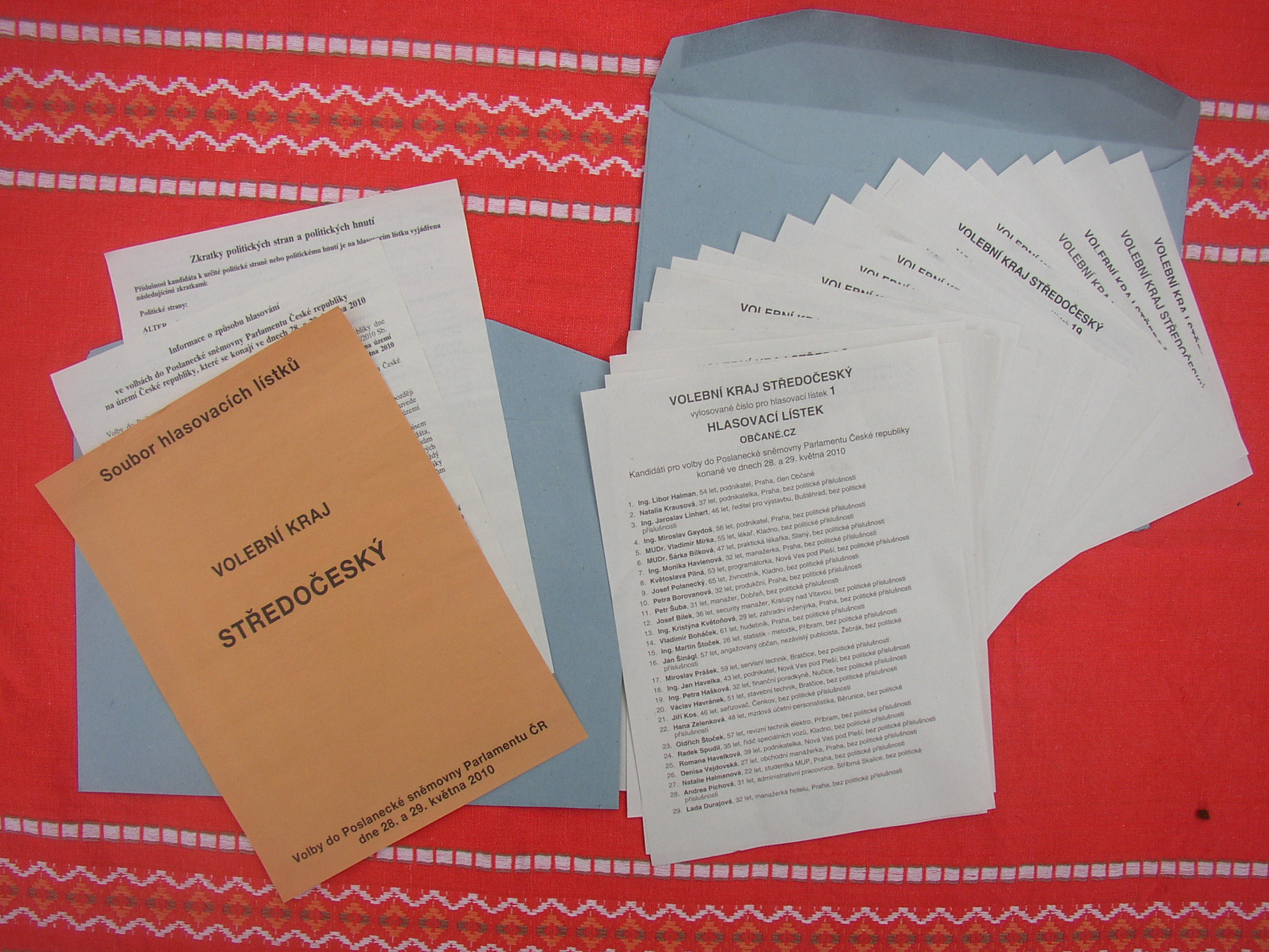 Set of ballots accompanied by instruction sheets for 2010 Czech legislative election. This is the content of an envelope delivered to each voter approximately one week (at least three days) prior to elections. The final distribution of these sets is organized through mayors of each municipality. General design and manner of distribution remain unchanged since 1990s. This blue envelope serves for packaging and distribution of ballots only. The official envelope for casting of one's selected ballot is issued on day of the election at polling station.